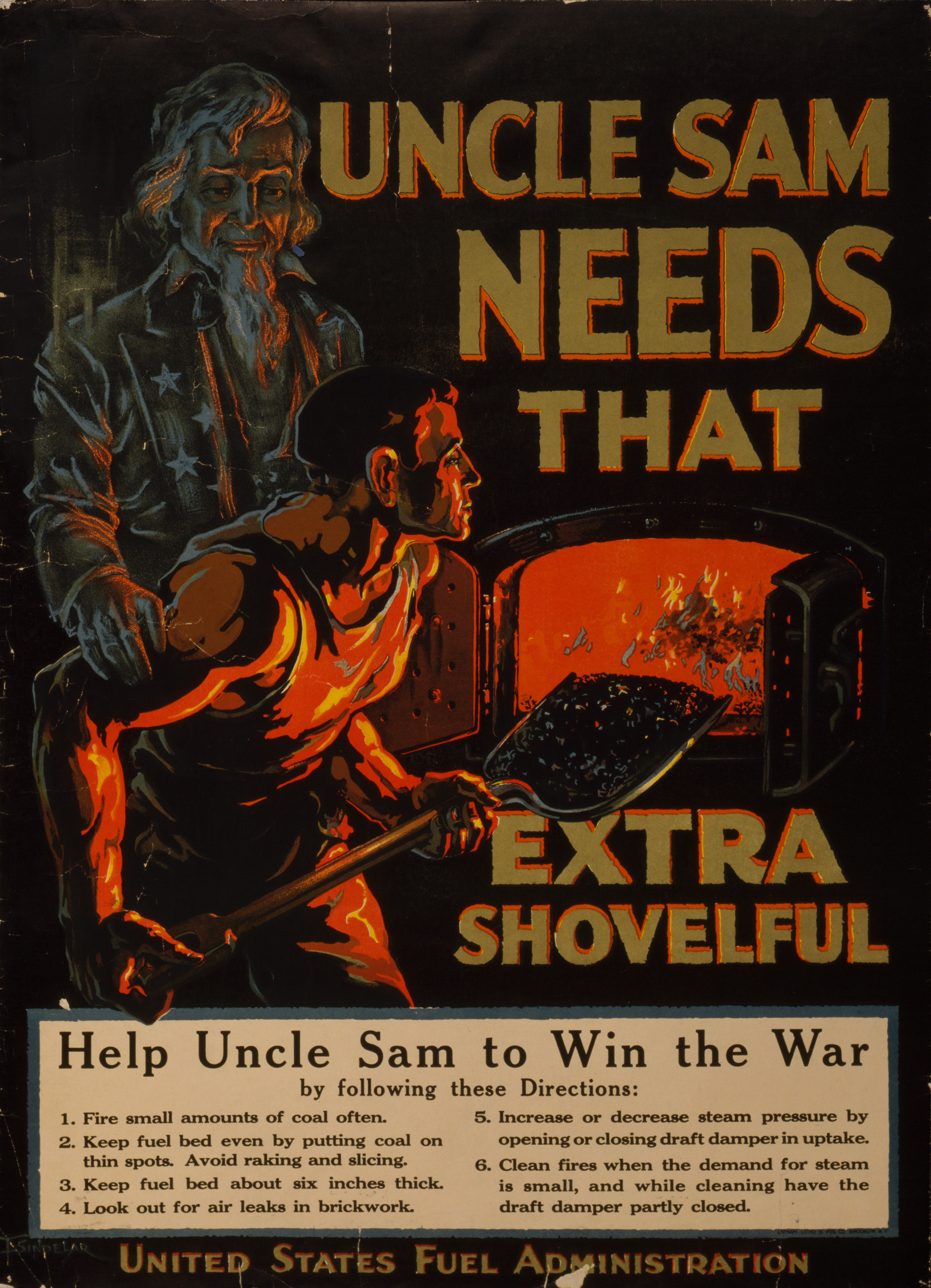 Uncle Sam needs that extra shovelful / F. Sindelar Help Uncle Sam to win the war by following these directions: 1. Fire small amounts of coal often. 2. Keep fuel bed even by putting coal on thin spots. Avoid raking and slicing. 3. Keep fuel bed about six inches thick. 4. Look out for air leaks in brickwork. 5. Increase or decrease steam pressure by opening or closing draft damper in uptake. 6. Clean fires well when the demand for steam is small, and while cleaning have the draft damper partly closed.